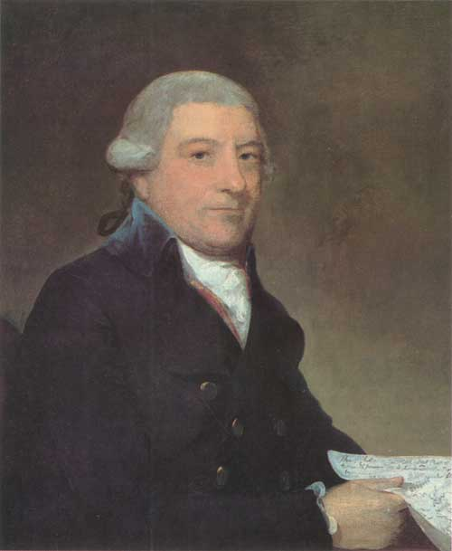 Alexander Henry (1739-1824), 'The Elder' This portrait (Alexander Henry. (C-1036121) is paired with one of his wife. They are both kept at the National Archives of Canada, Ottawa.